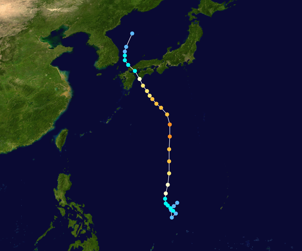 Typhoon Phyllis 1975 track. Uses the color scheme from the Saffir-Simpson Hurricane Scale.